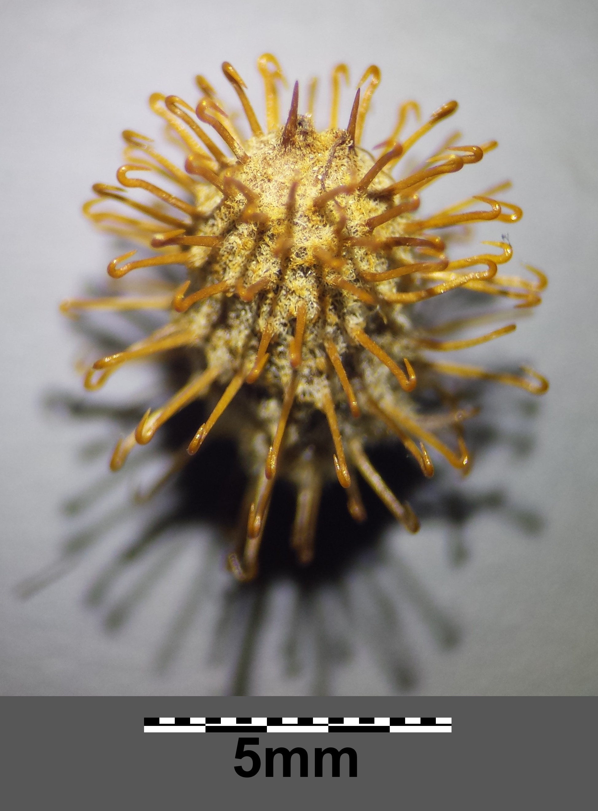 ♀ capitulum with straight beaks (top) Taxonym: Xanthium spinosum ss Fischer et al. EfÖLS 2008 ISBN 978-3-85474-187-9 Location: 0,7 km nordöstlich von Roseldorf, district Korneuburg, Lower Austria - 240 m a.s.l. Habitat: field of potatoes